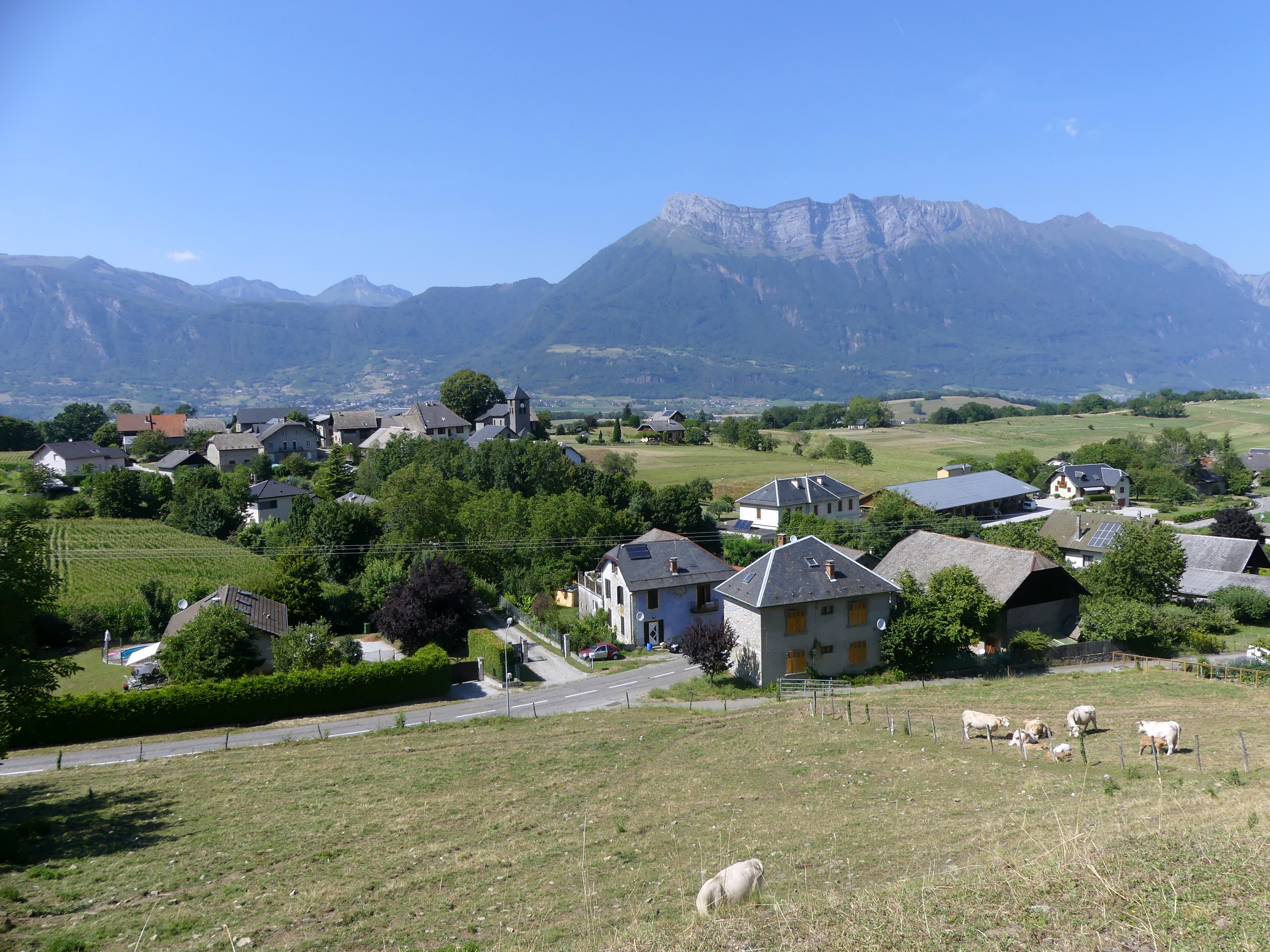 Sight, from the heights, of Hauteville village in the Combe de Savoie valley, with visible Bauges mountain range at the background, in Savoie, France.